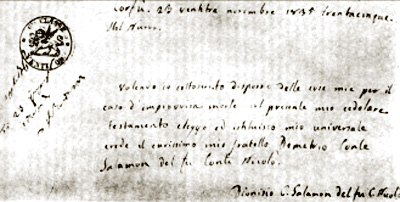 Will of Dionysios Solomos